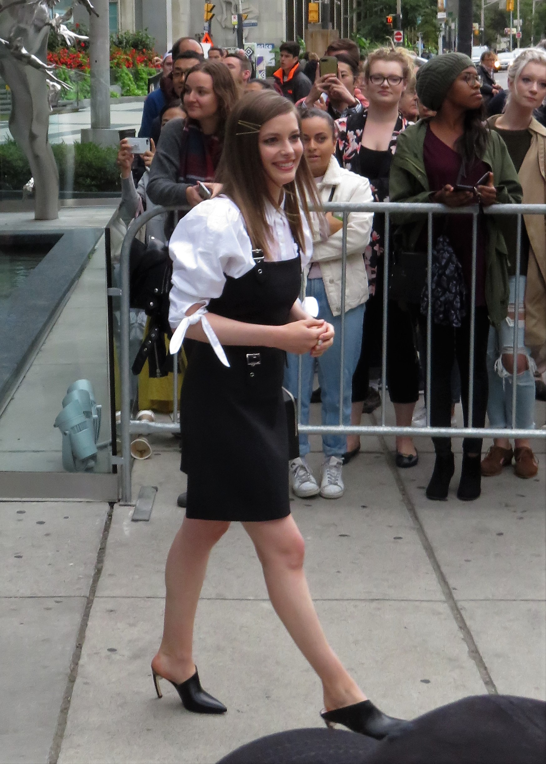 Gillian Jacobs